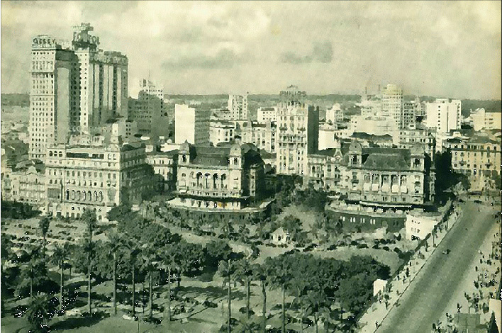 Vale do Anhangabaú